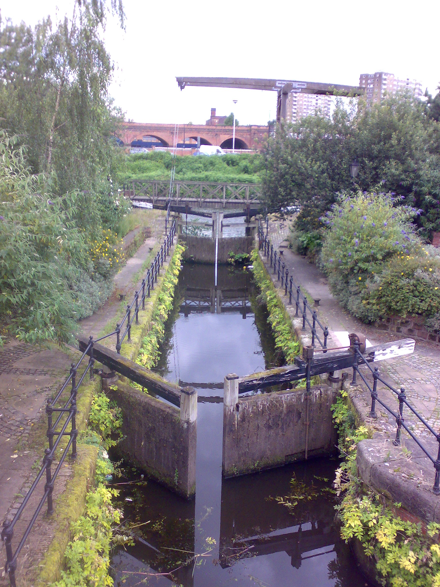 Manchester and Salford junction canal entrance, looking north towards the Irwell